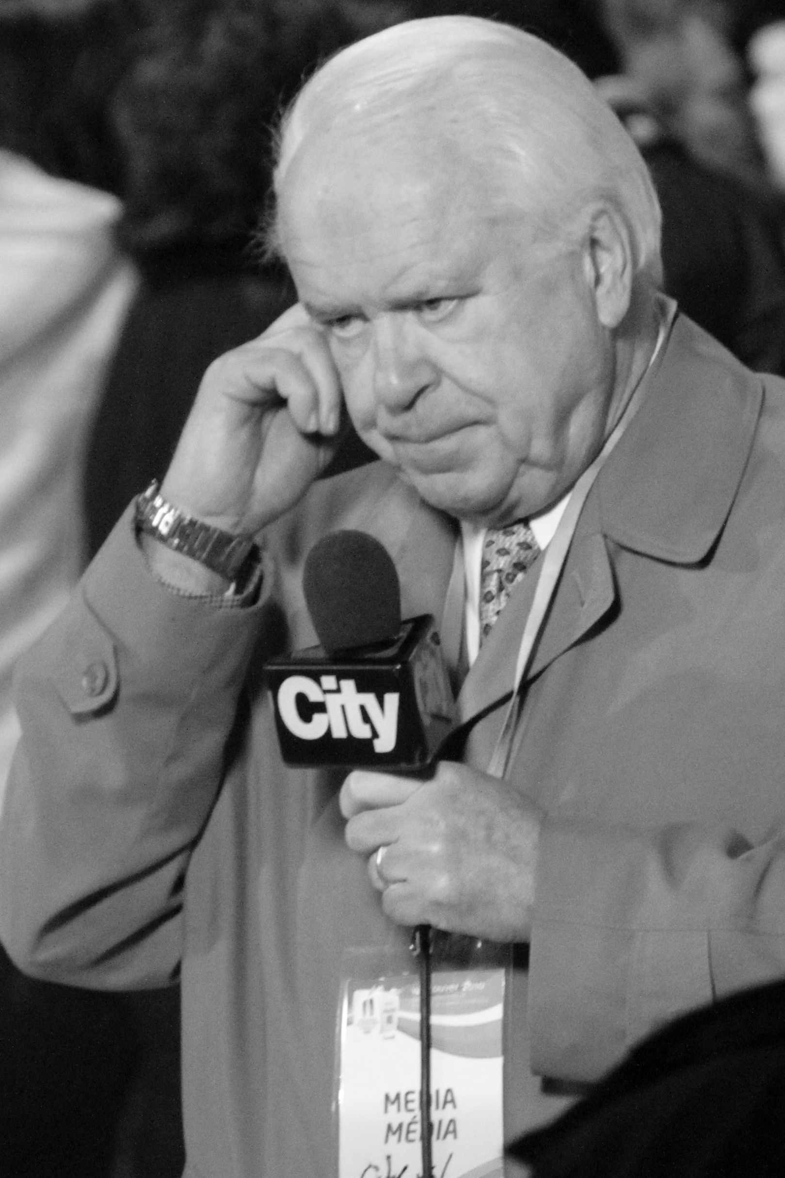 Mike McCourt of City TV is seen here covering a public party put on by the City of Calgary to celebrate Canadian Olympic athletes who were to be participating in the (then) upcoming 2010 Olympics in British Columbia. It was held on January 18, 2010. McCourt it standing on or near Macleod Trail between City Hall and Olympic Plaza. The image has been cropped, despotted, and decolorized.